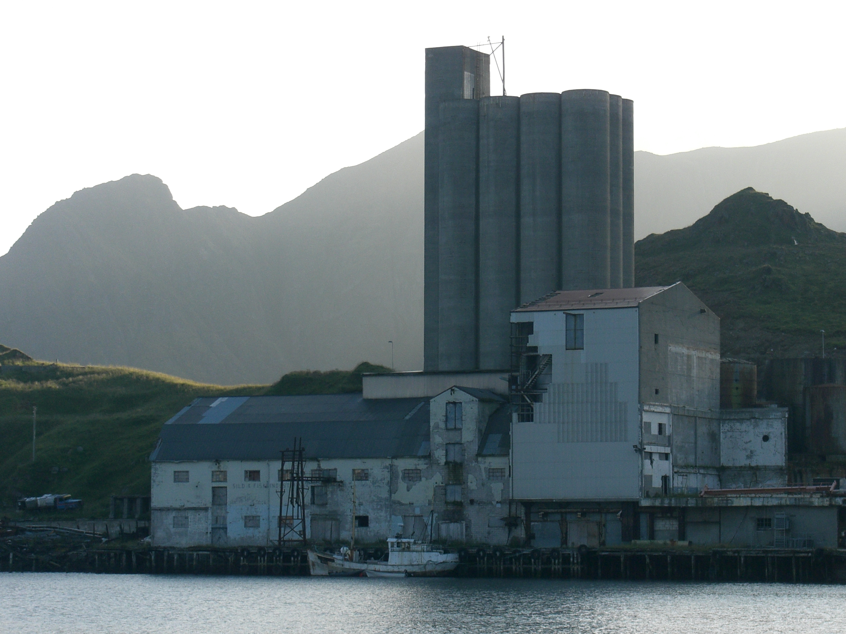 Factory for fishfood in Honningsvåg, Norway